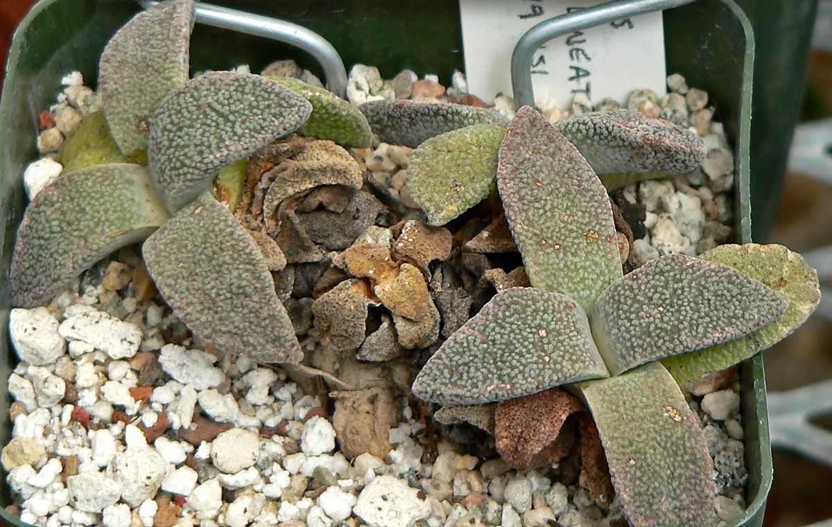 Aloinopsis rubrolineata at the University of California Botanical Garden, Berkeley, California